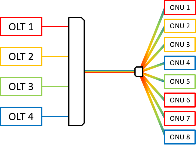 NG-PON2 distribution network. Light from four OLTs (left), each of a different wavelength, are combined into a single fiber using a wavelength-sensitive mux. The combined fiber transports the data to and from the end-users and is equally split among the ONUs. Each ONU communicates with just one OLT at a time through the use of tunable lasers (upstream) and active filters (downstream).